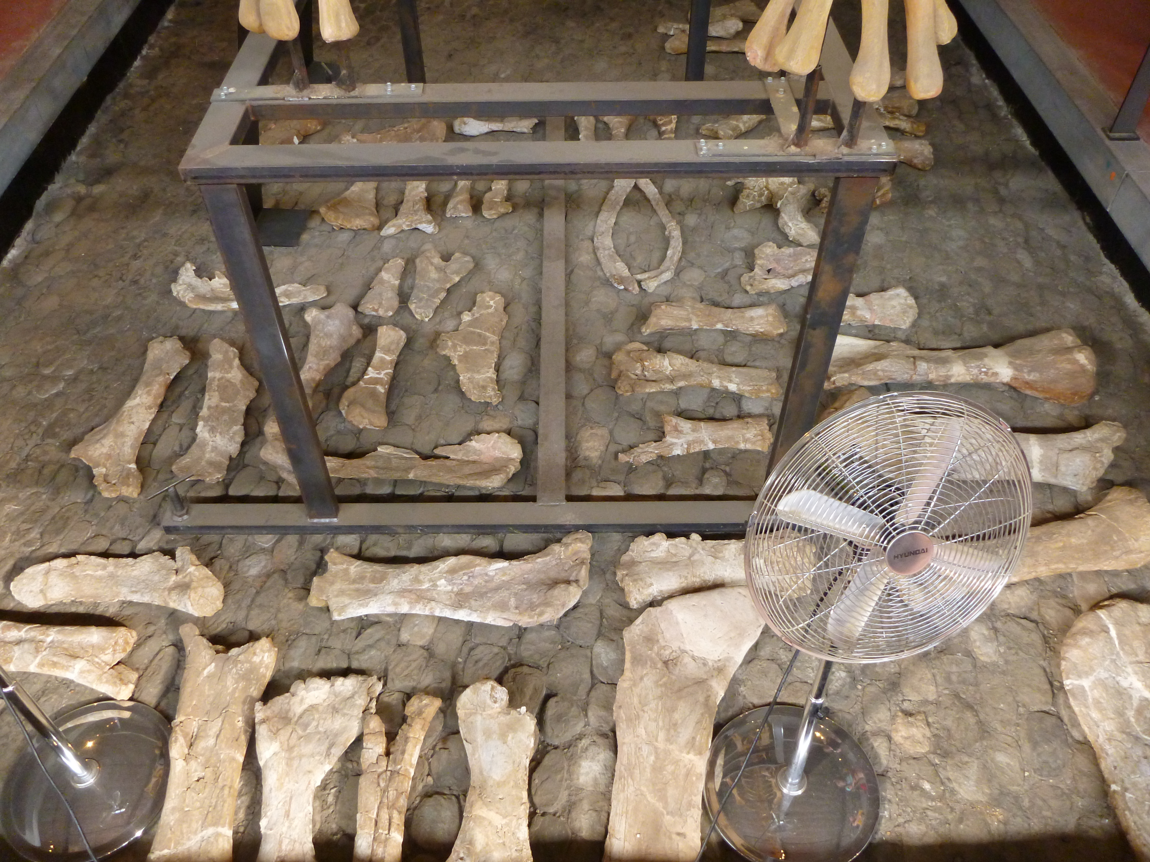 Long bones of Ampelosaurus, on display at the Musée des dinosaures, Esperaza, France